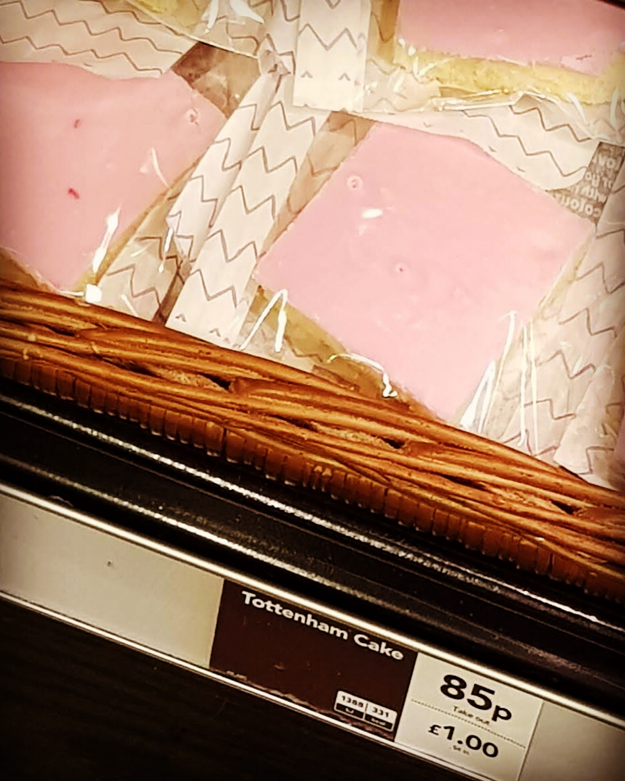 Tottenham cake, a British tray-baked sponge cake topped with pink icing. Originally from the Tottenham district of north London. Sold by the bakery chain Greggs.